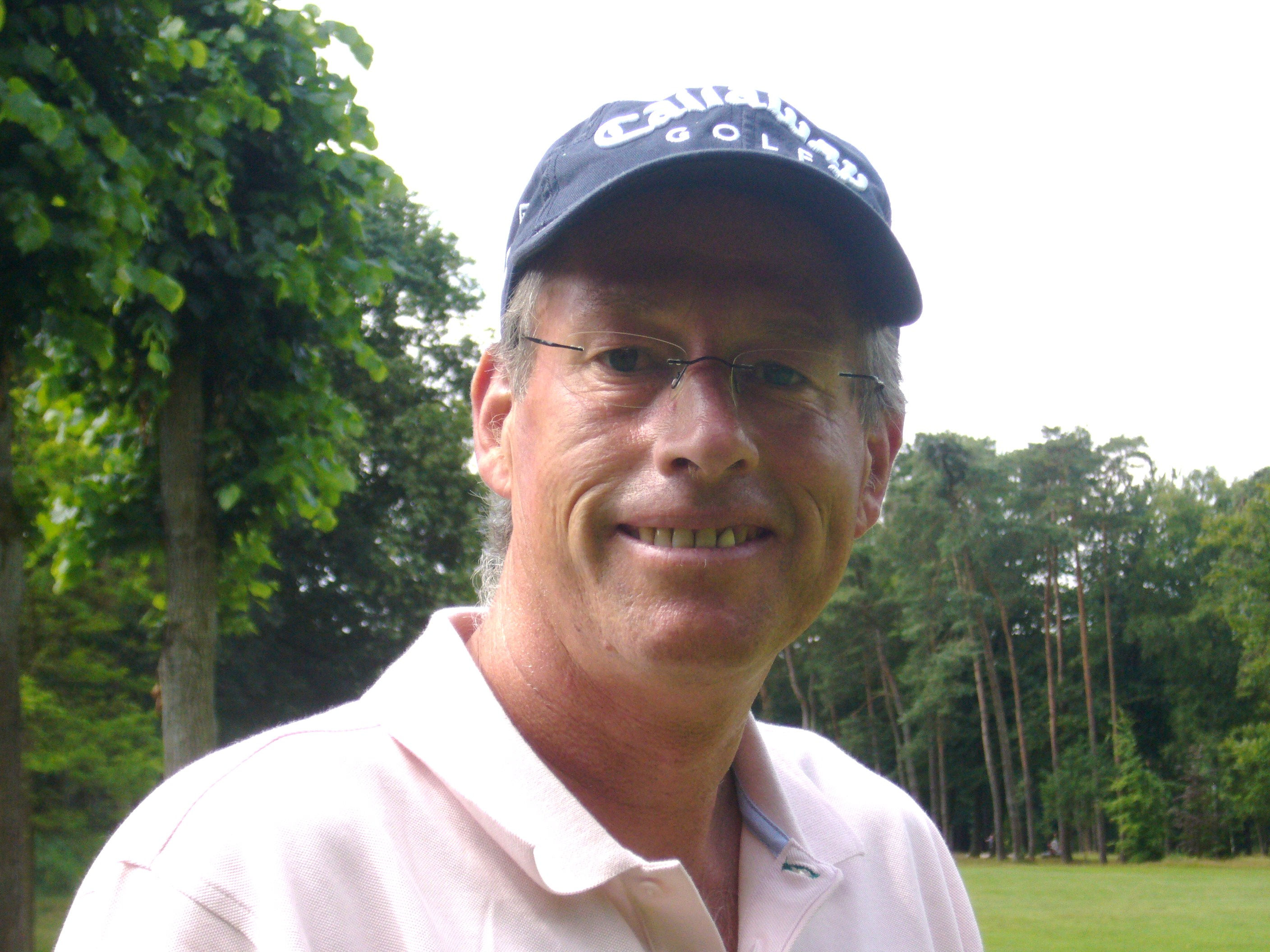 Brian Gee, golfprofessional in Holland